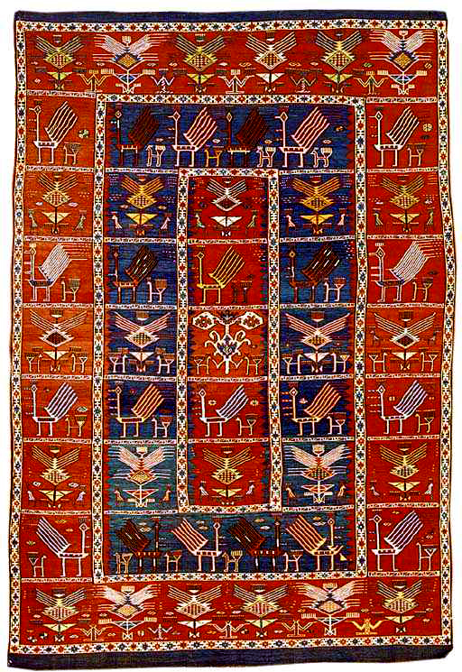 Baku Zilli carpet, 1900.